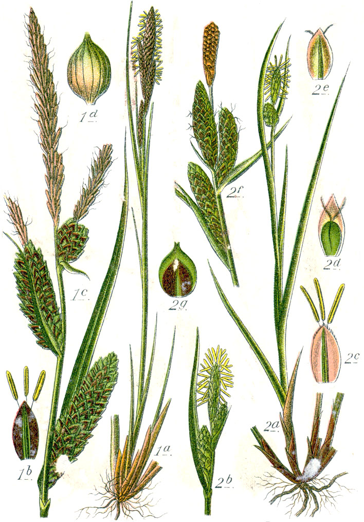 1. Carex elata subsp. elata, syn. Carex stricta Gooden., nom. ill. 2. Carex nigra subsp. nigra, syn. Carex goodenoughii Asch. & Graebn. Original Description 1. Steife Segge, Carex stricta 2. Wiesen-Segge, C. goodenoughii